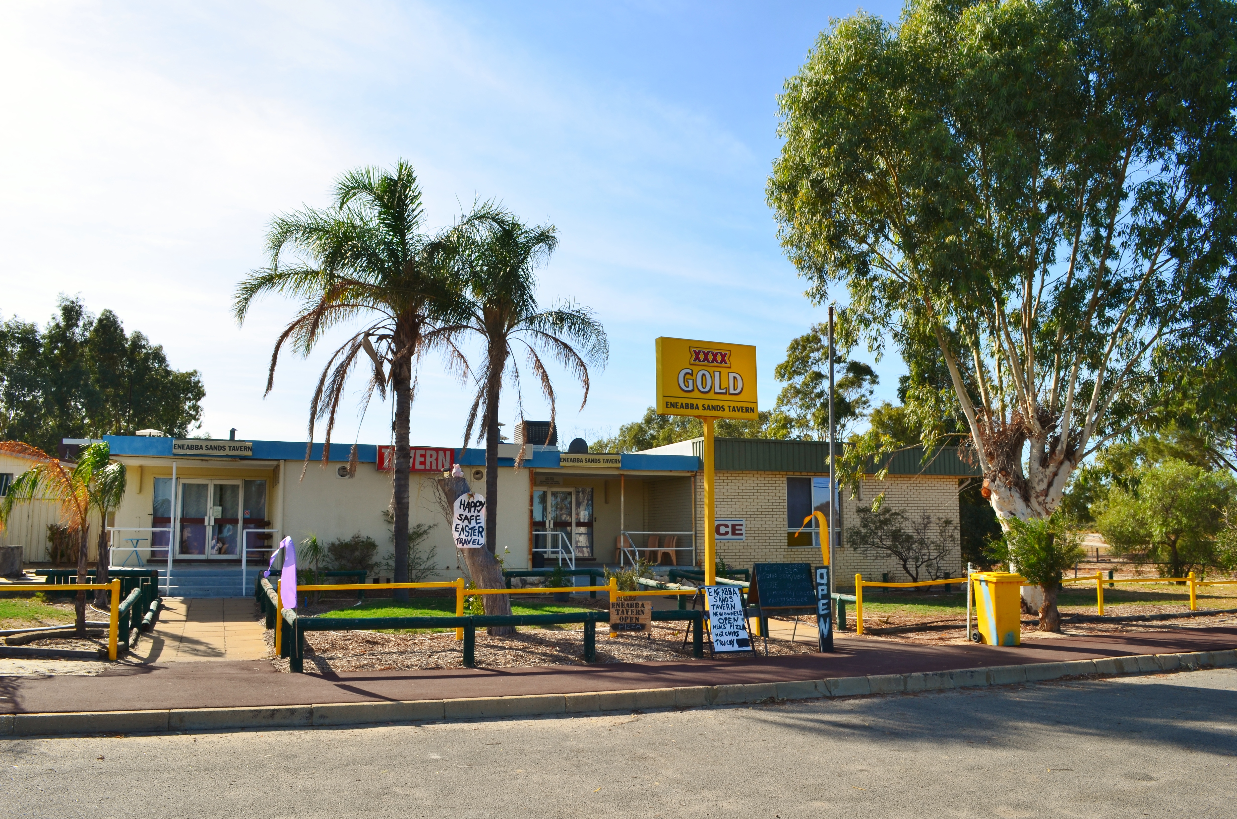 View of the Eneabba Sands Tavern, Eneabba, Western Australia.